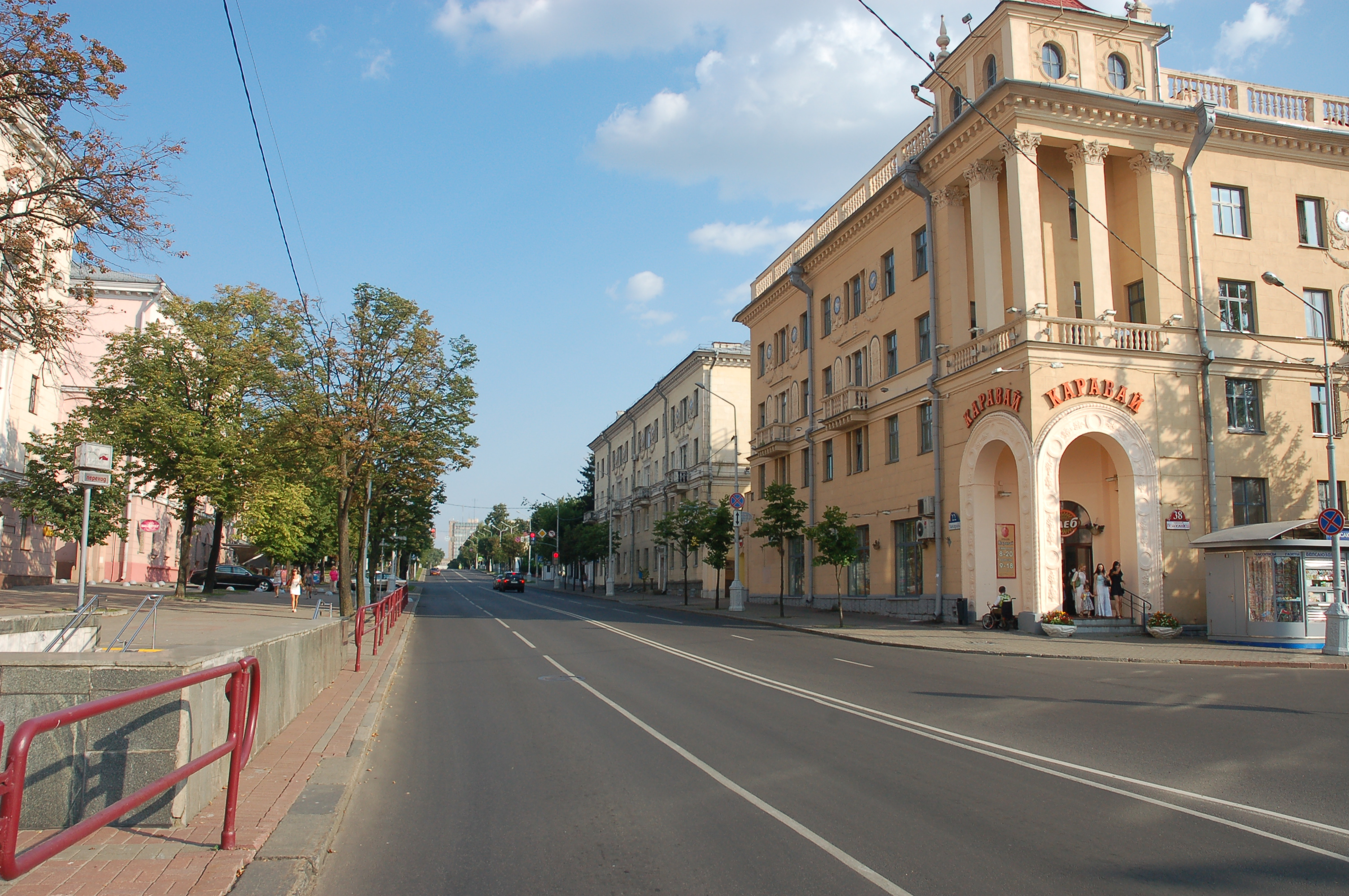 Minsk, Zakharava Street viewed from Victory Square